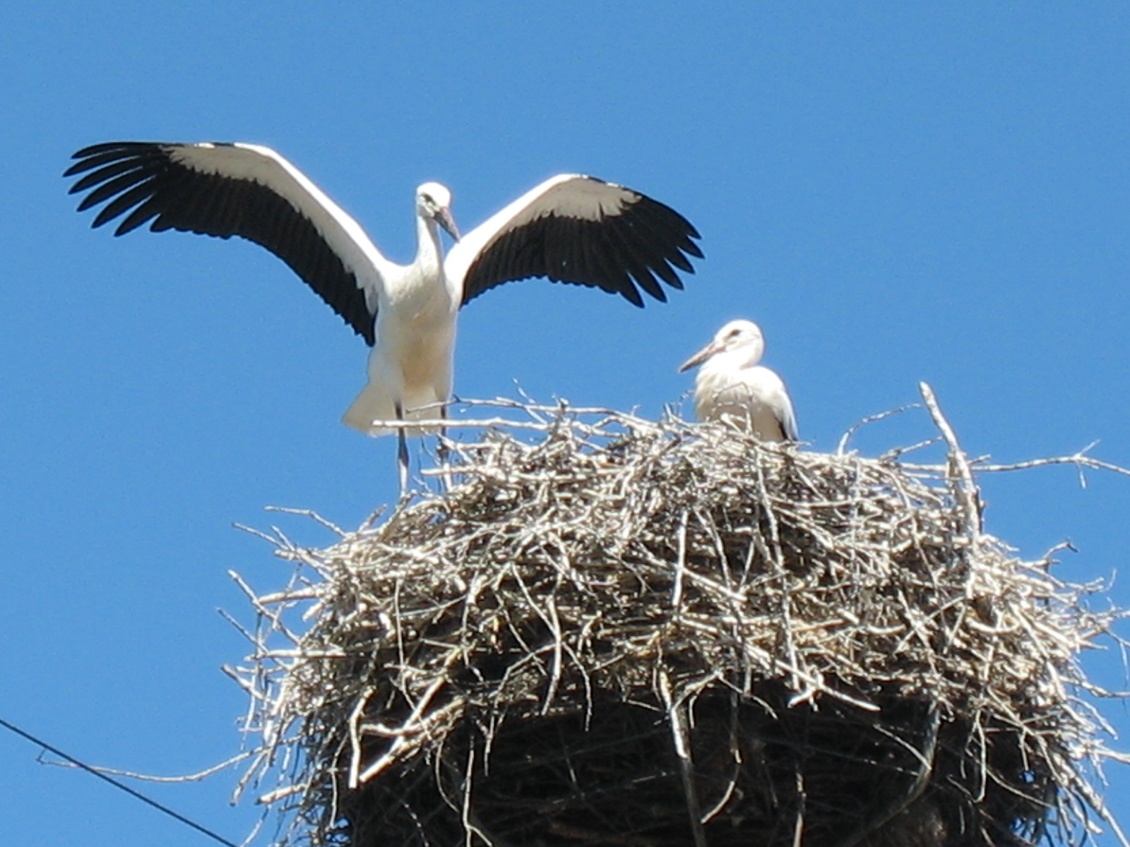 Młode bociany biale Autor: Yayek Data: 2006-07-20